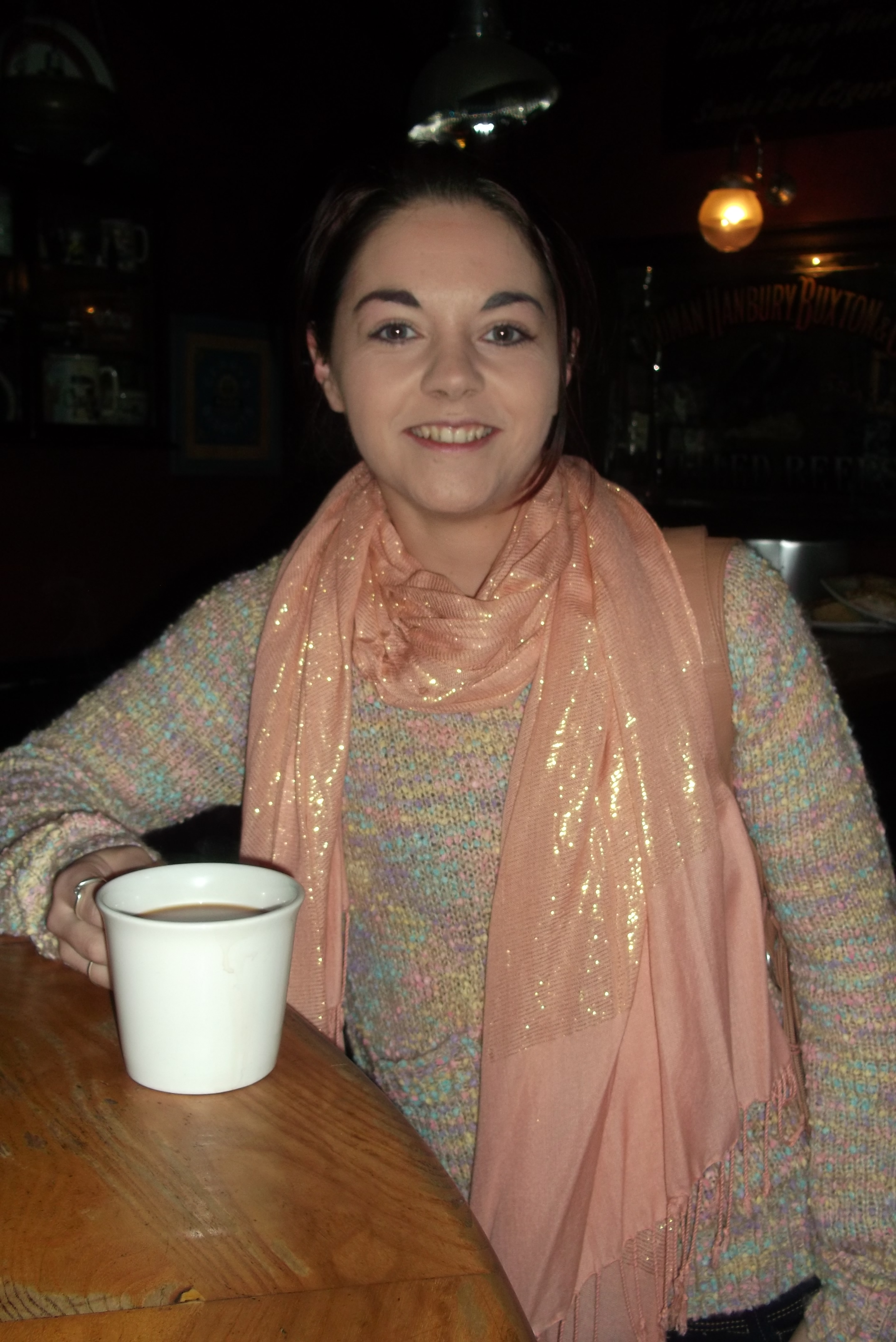 Amanda Howard. Baily's Corner, Tralee, Co Kerry, Ireland